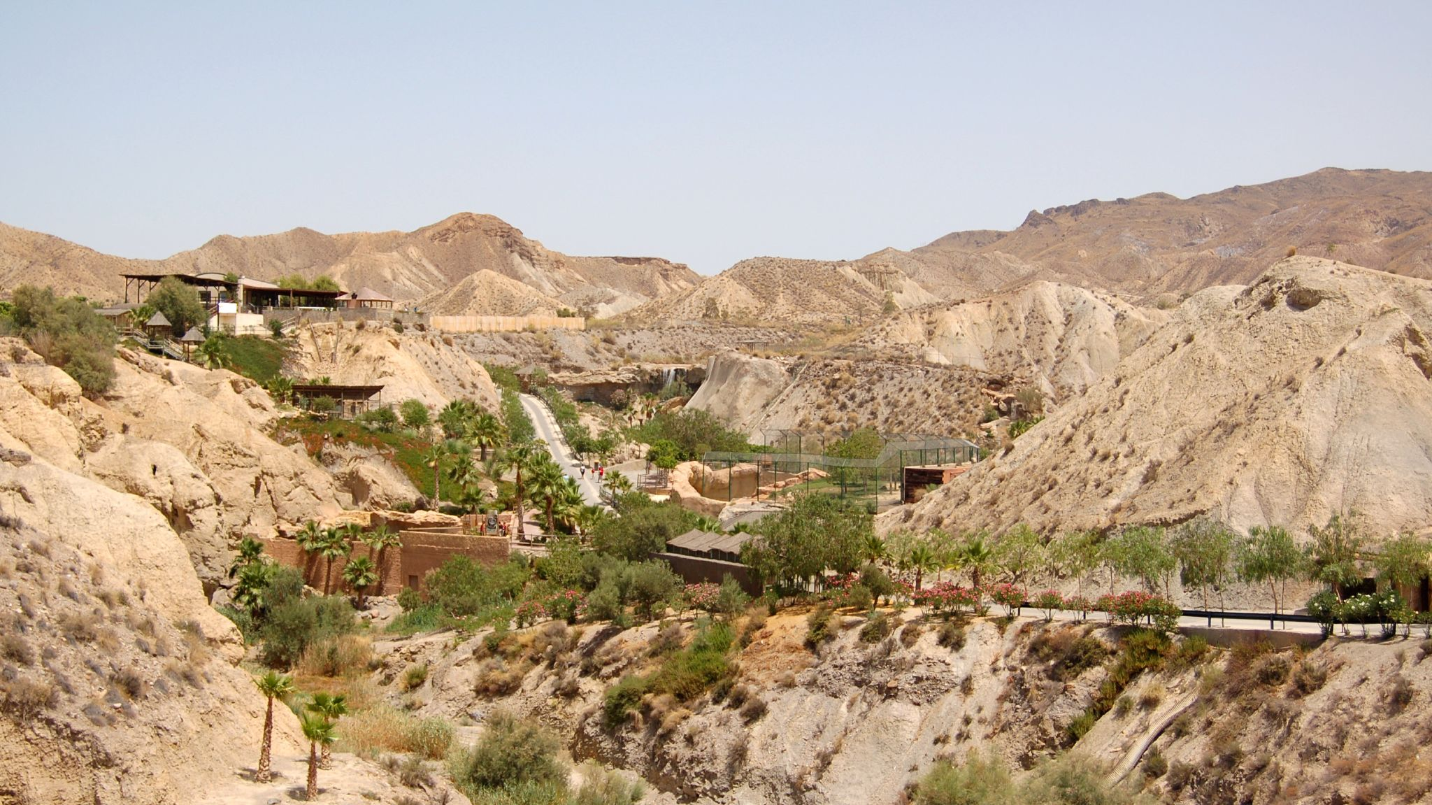 A look at the zoo in Mini Hollywood from a distance